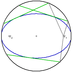 An ellipse as envelope of lines